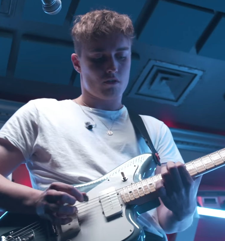 Screenshot of Sam Fender performing "Dead Boys" at Tape Live for MTV Music